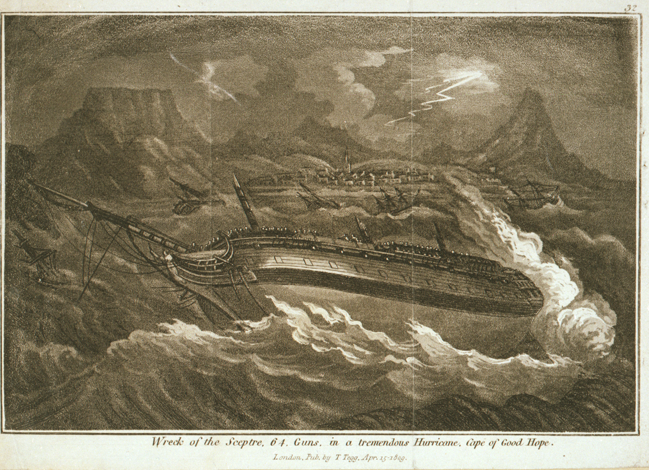 Wreck of the Sceptre, 64 guns, in a tremendous Hurricane, Cape of Good Hope